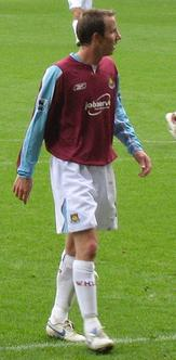 English football (soccer) player Lee Bowyer